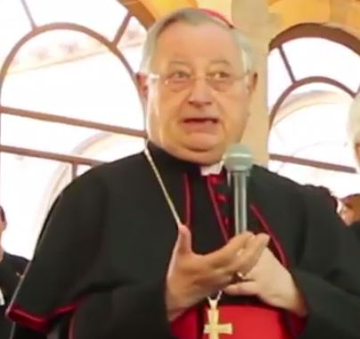 Cropped video still of Giuseppe Bertello speaking at the Vatican Museums in July 2016